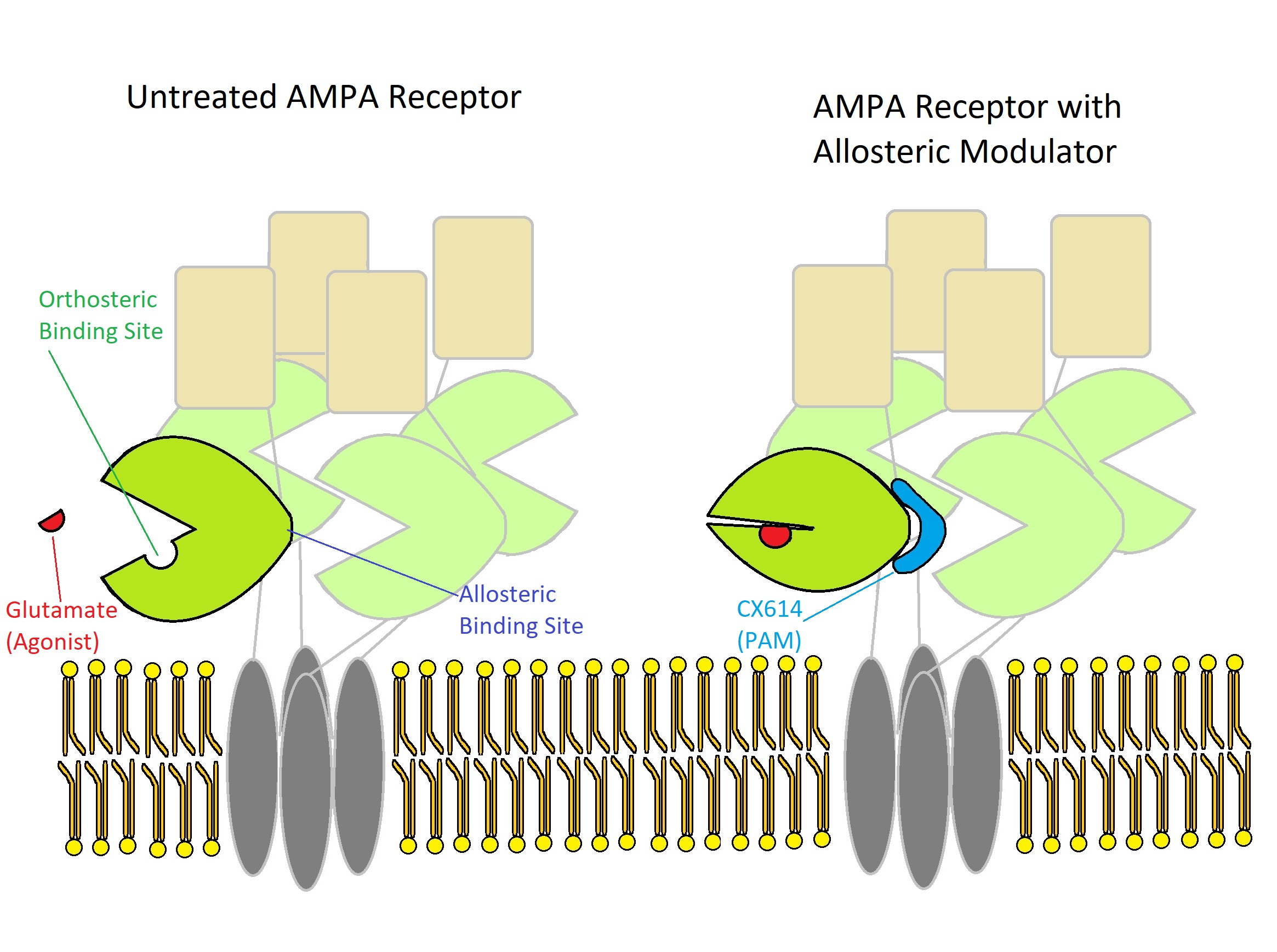 CX614 is an allosteric modulator for an AMPA receptor. It stabilizes the closed conformation of the clamshell around the binding site, slowing agonist release and therefore deactivation of the receptor.